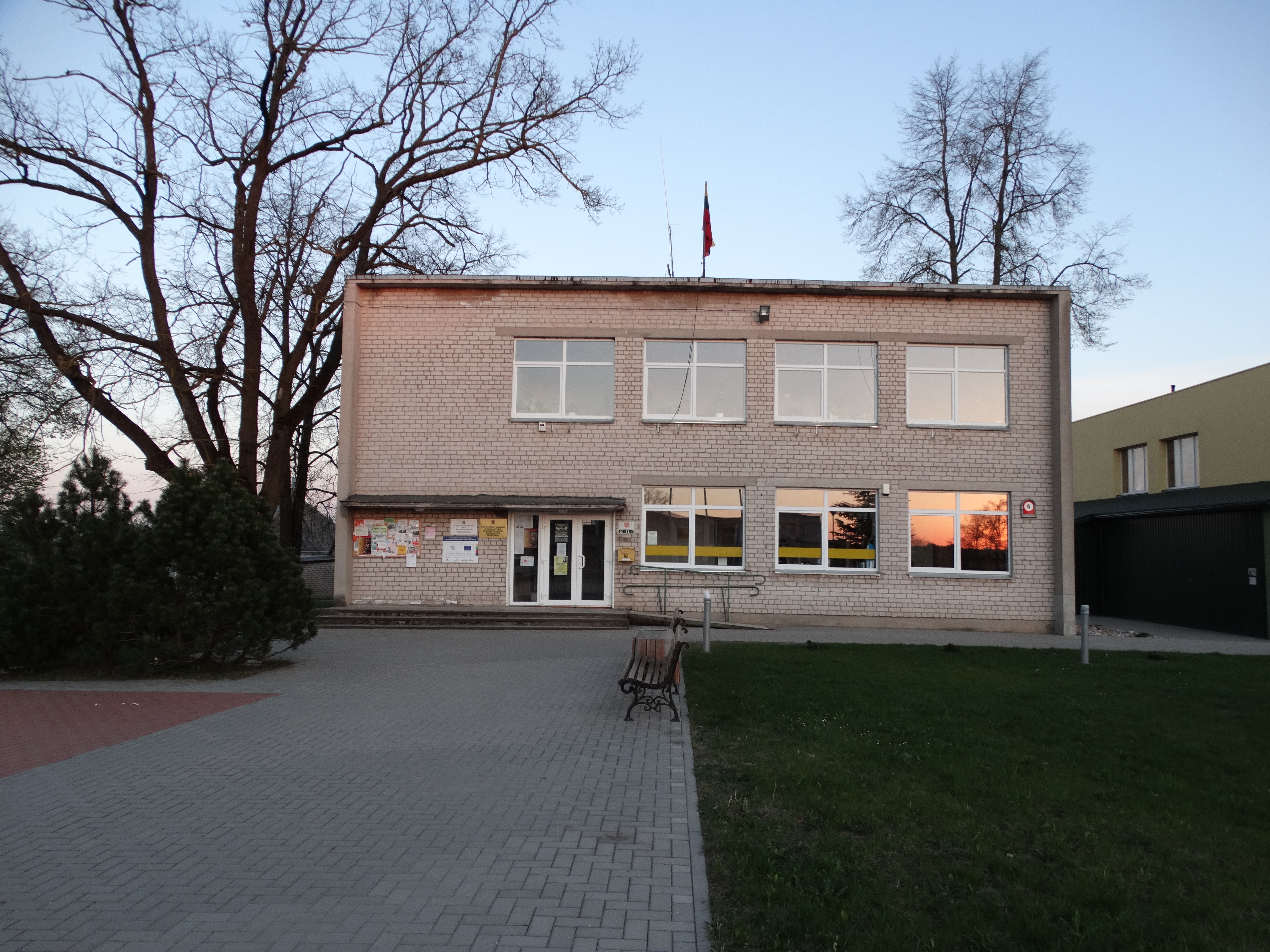 Baisogala, eldership, Radviliškis District, Lithuania